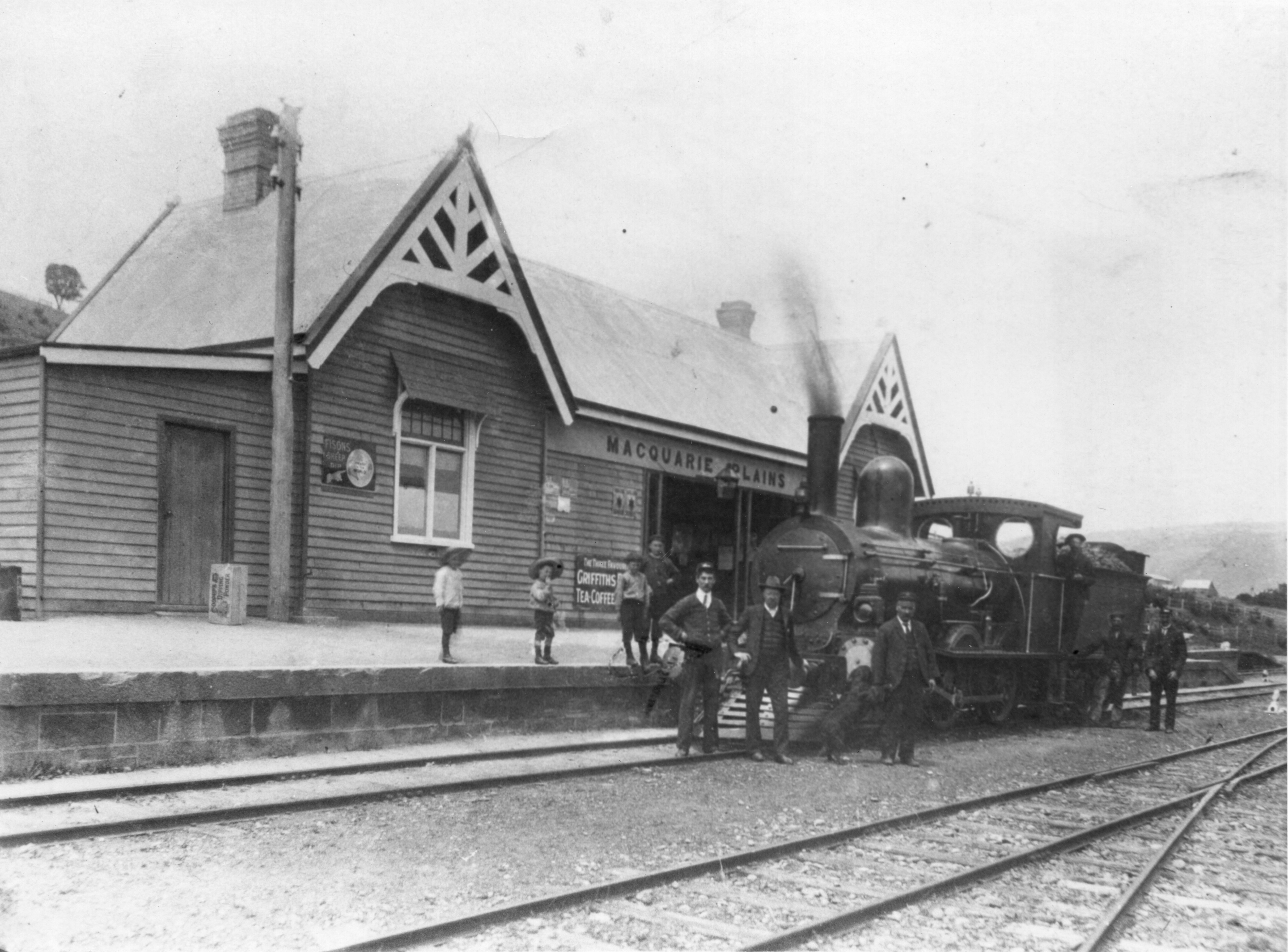 A B class locomotive at Macquarie Plains. Ted Lidster collection